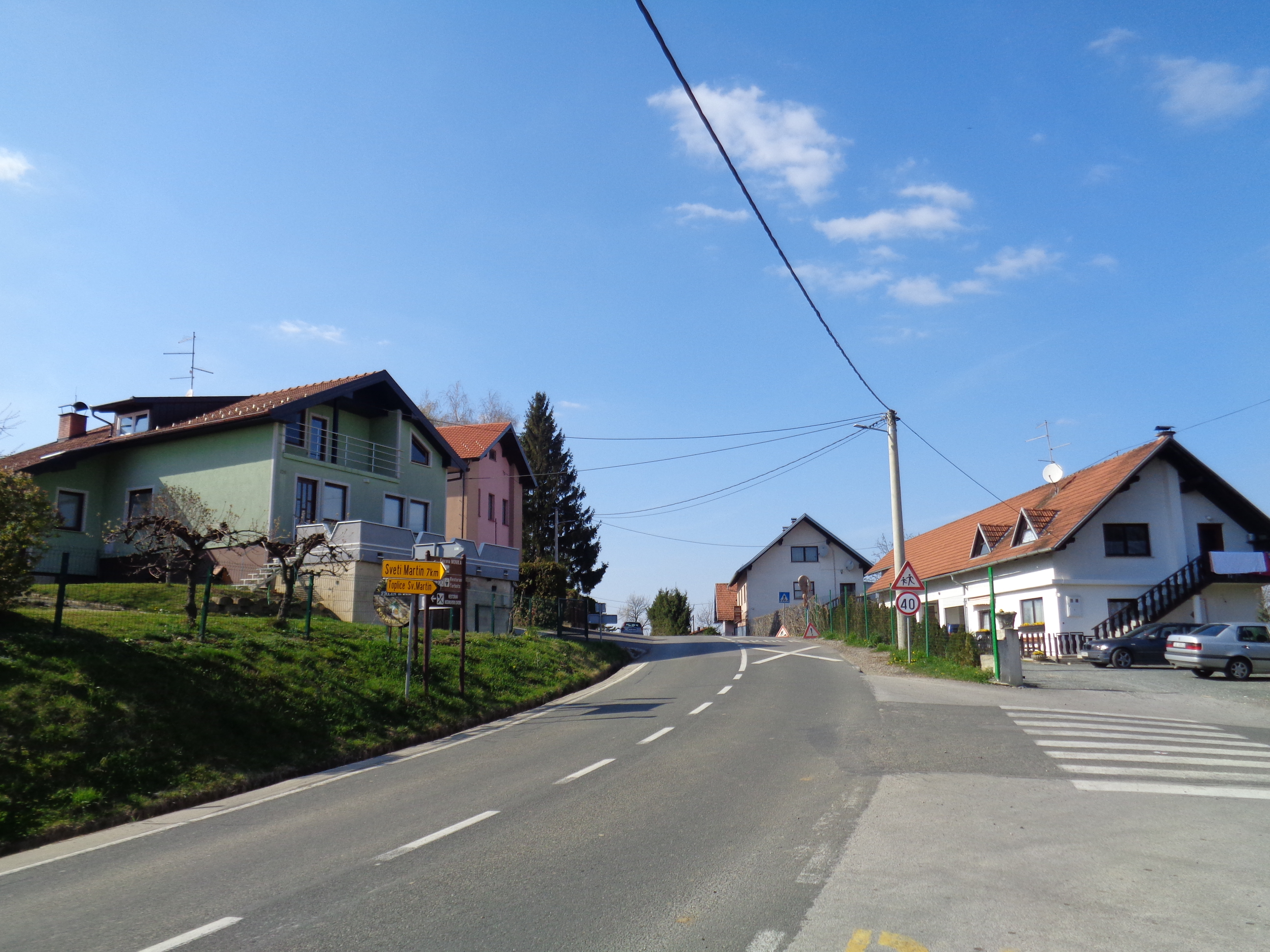 Železna Gora village, Medjimurje County, Croatia - village centre